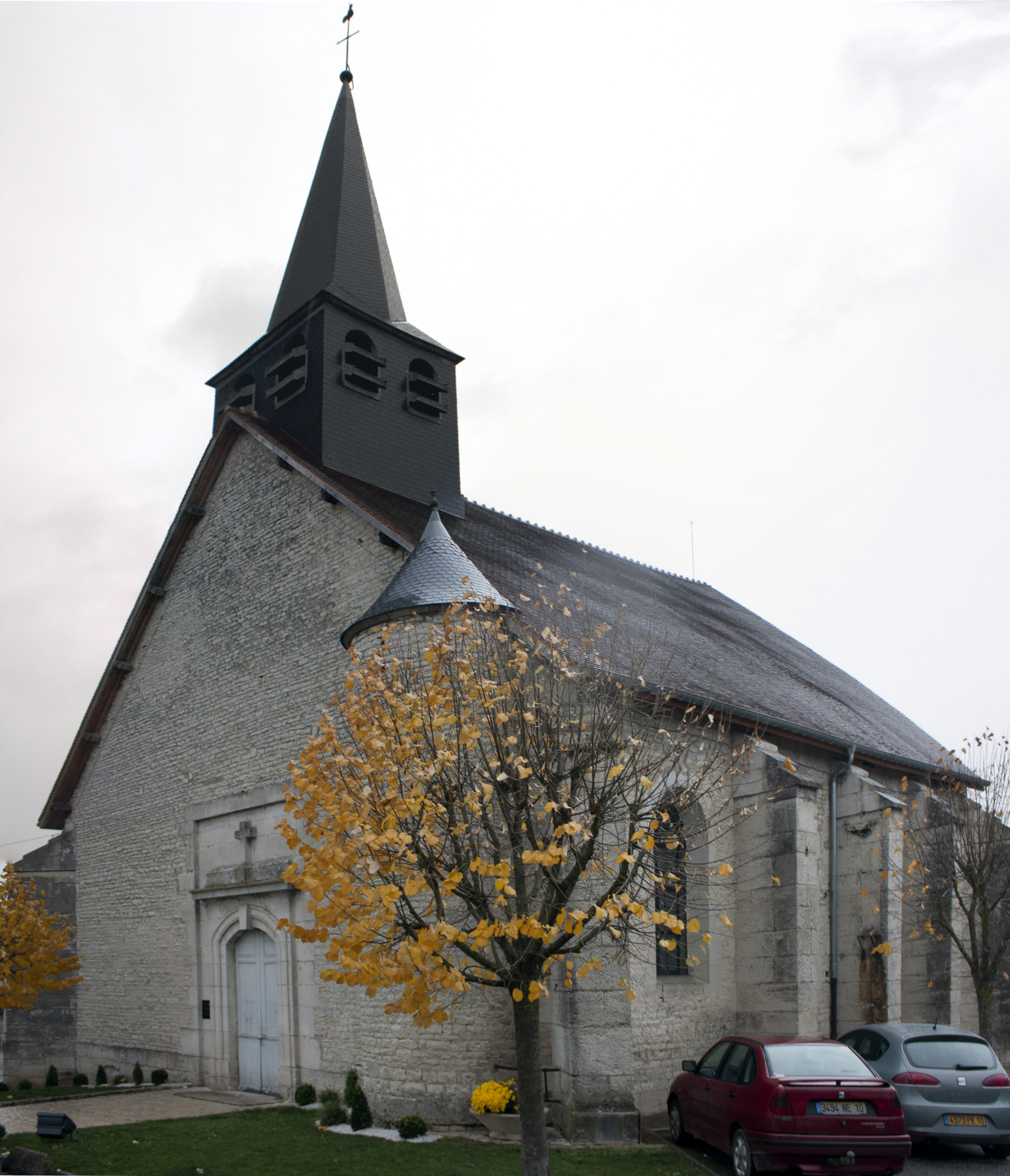 Parish church Saint-Martin, Bayel, , Champagne-Ardenne , France.